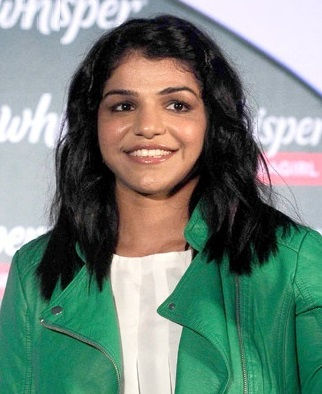 Indian wrestler Sakshi Malik at a promotional event in 2016